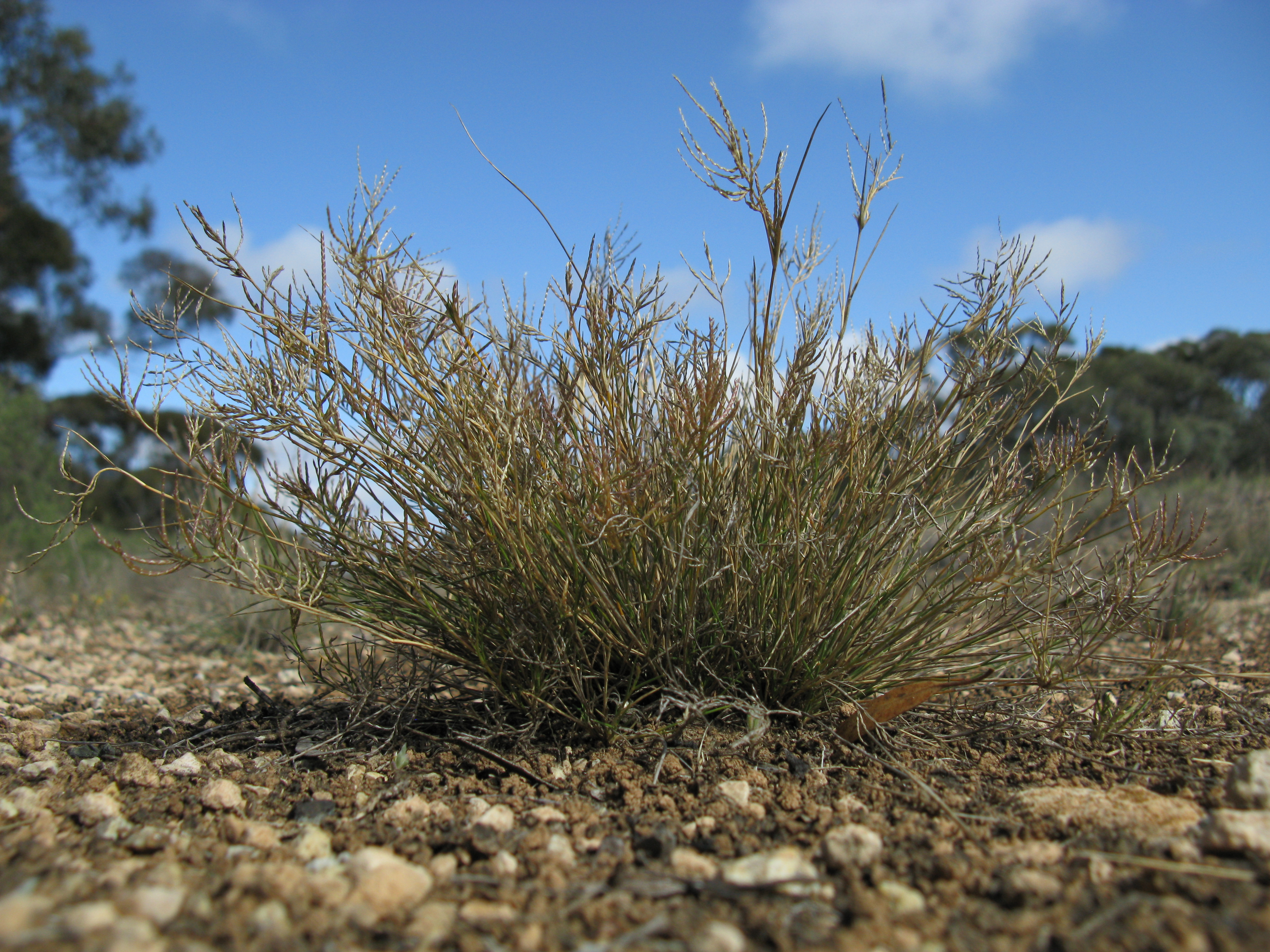 Native, warm-season, annual or short-lived perennial grass to 40 cm tall. Stems are spreading and their bases are often swollen.